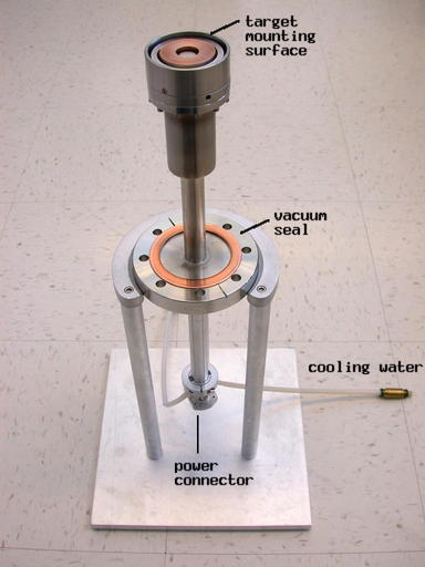 A magnetron sputter gun that uses a plate-geometry target. The target-mounting surface, vacuum feedthrough, cooling water lines and power connector are all visible.